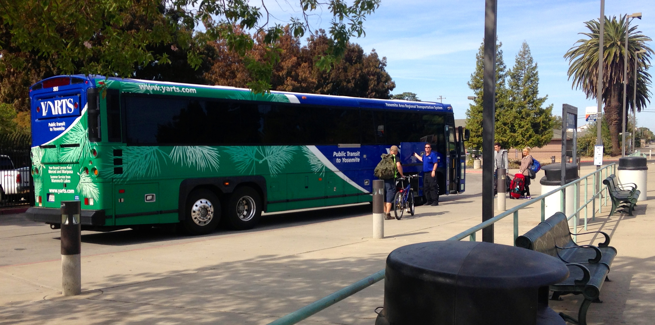 Amtrak Thruway Motorcoach passengers boarding a YARTS bus at the Merced, CA Amtrak station.